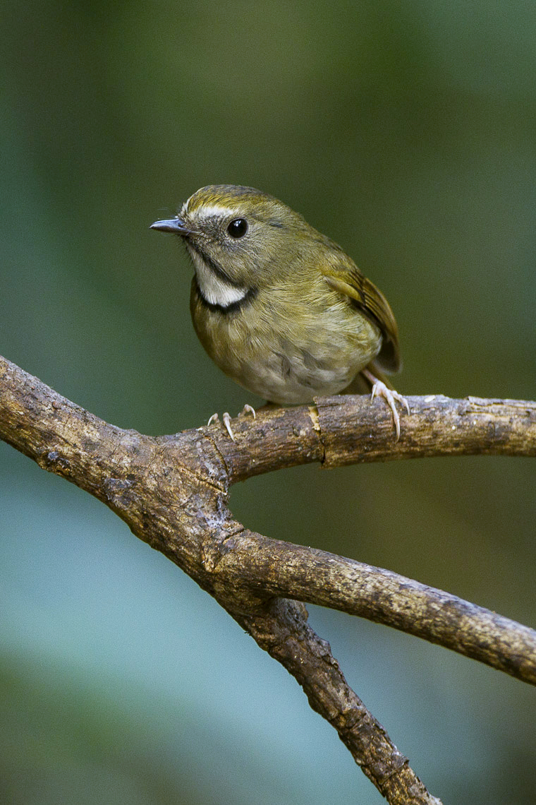 White-gorgeted Flycatcher - Thailand_S4E9906